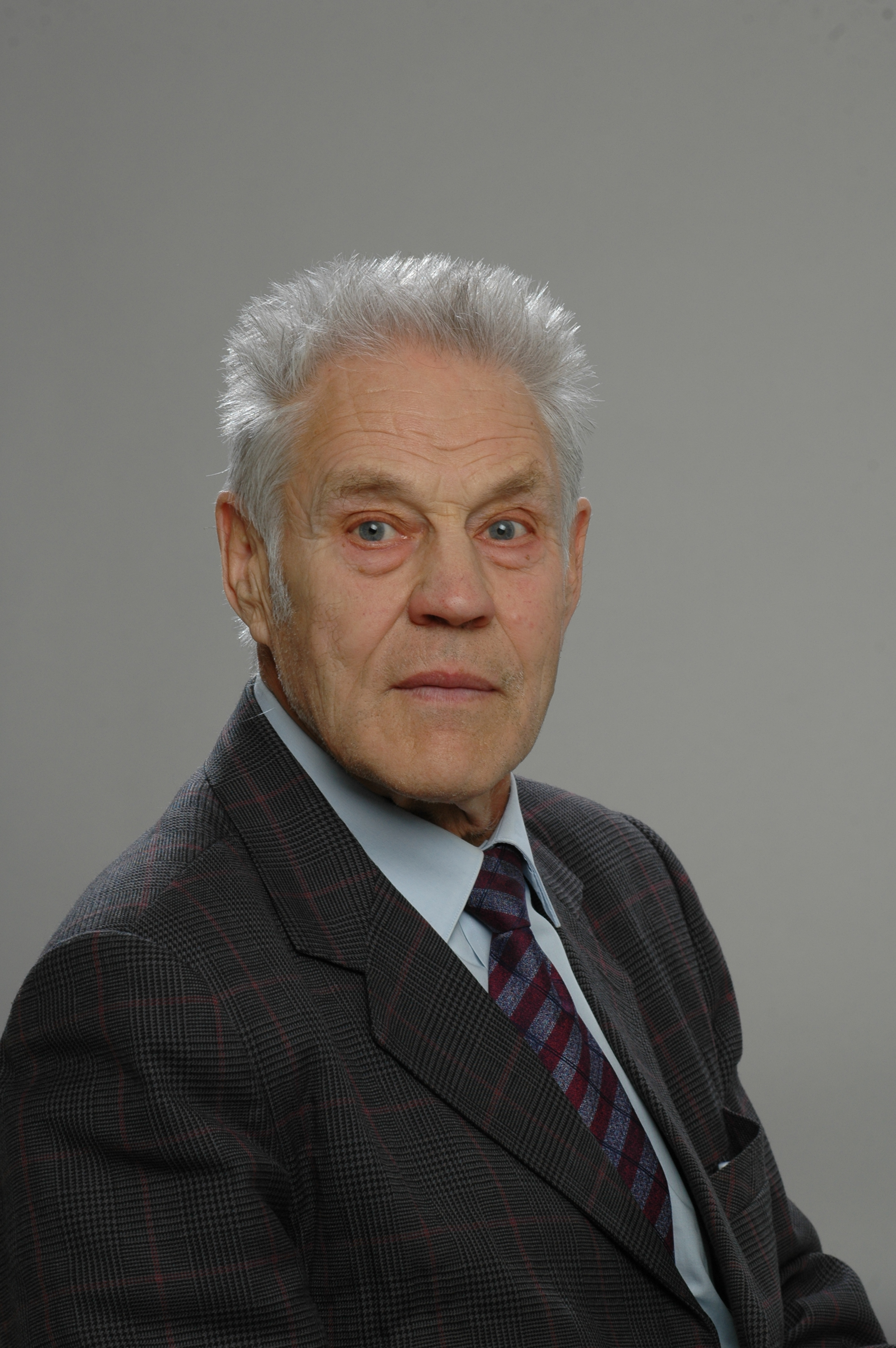 Deputy of the 9th Saeima Visvaldis Lācis